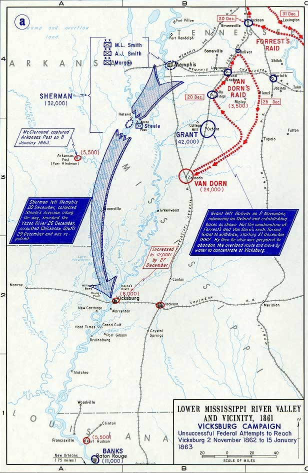 Vicksburg Campaign - Federal Attempts to reach Vicksburg 2 November 1862 to 15 January 1863